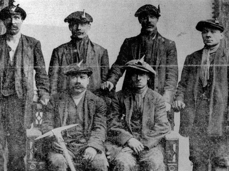 Lithuanian Miners. c.1905.